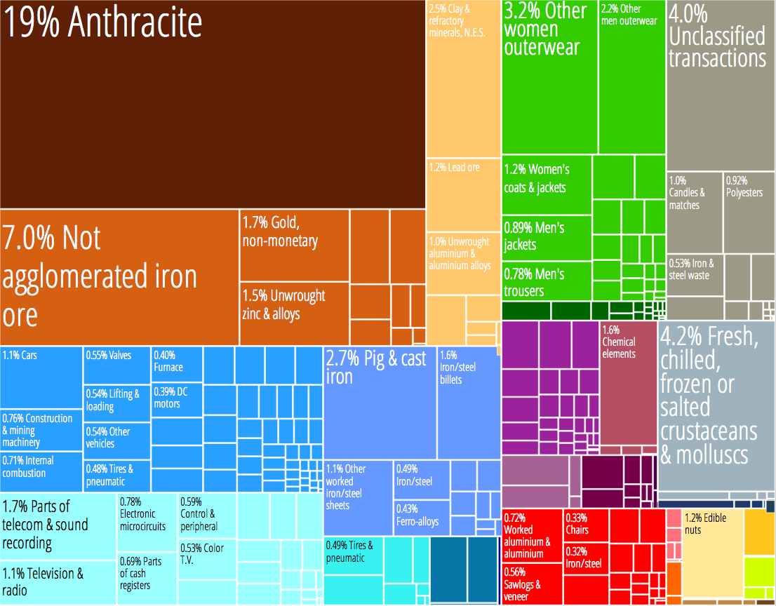 Graphical depiction of the country's product exports in 28 color coded categories. Each colored box represents one product and its size is proportional to the share of the country's total exports that the product represents.